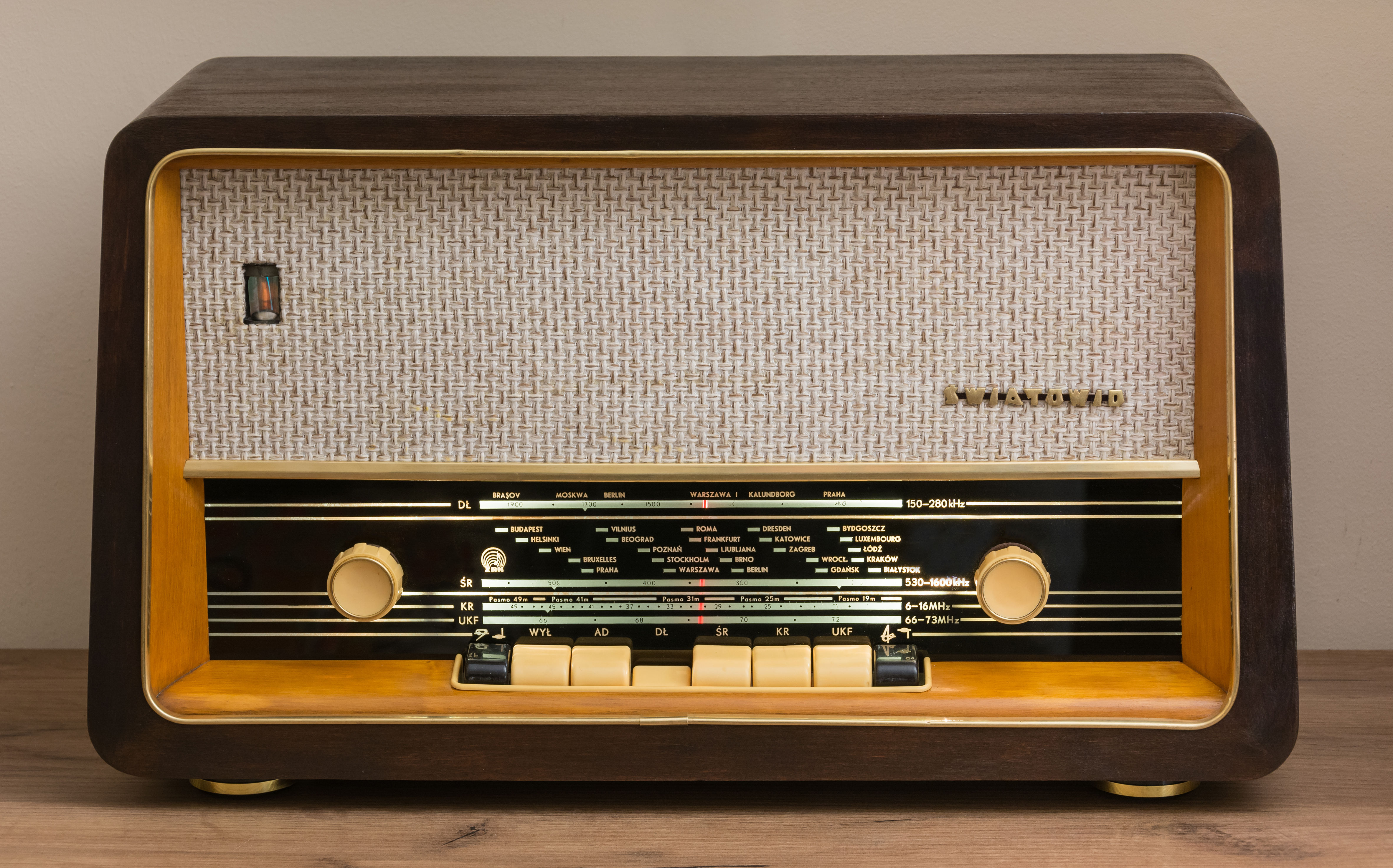 Światowid radio reciver from 1964